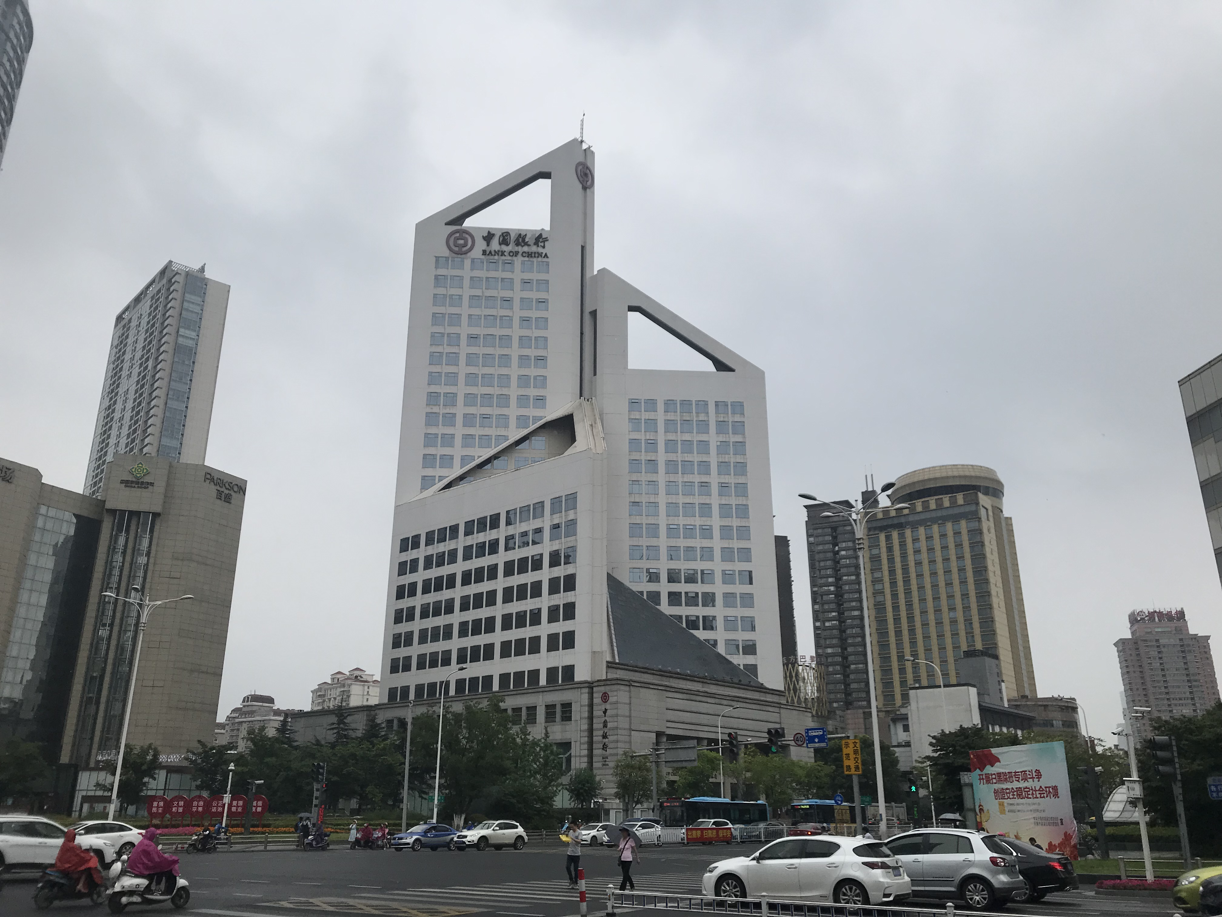 Somehow different than the one in HK